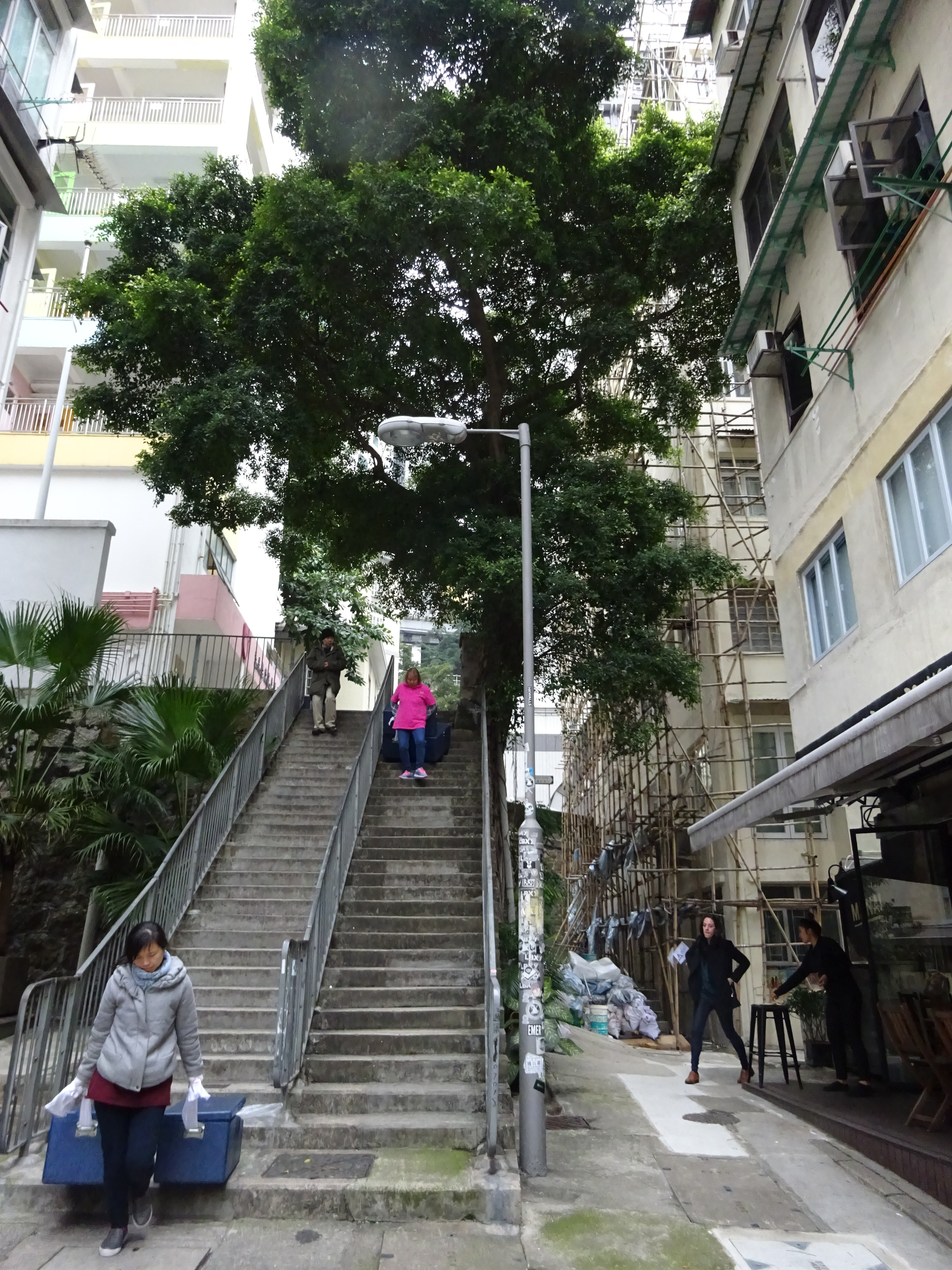 磅巷, Pound Lane, Sheung Wan, Hong